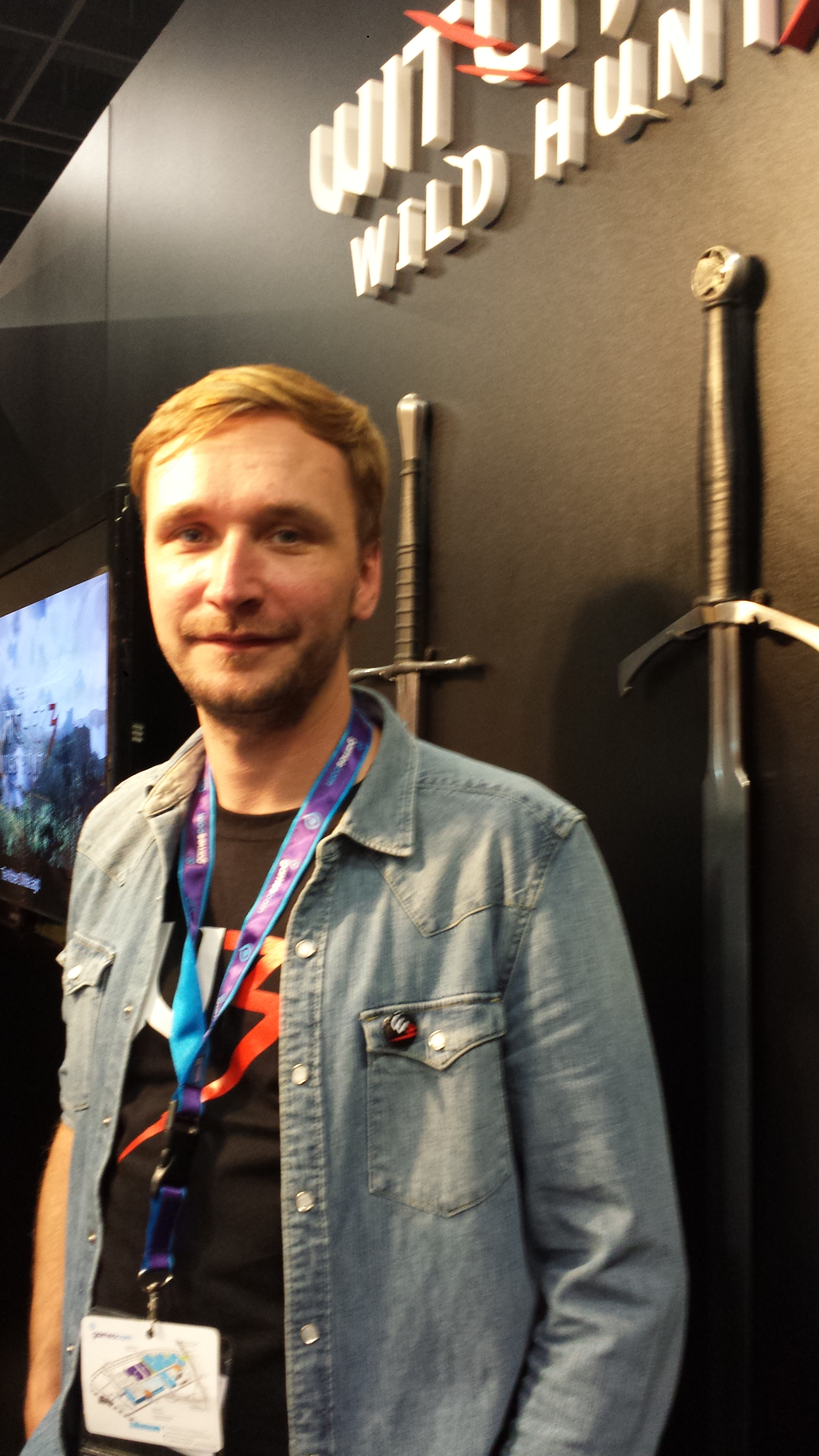 Adam Badowski - Head of Art on The Witcher